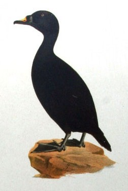 Oidemia nigra = Melanitta nigra (Common Scoter) - male